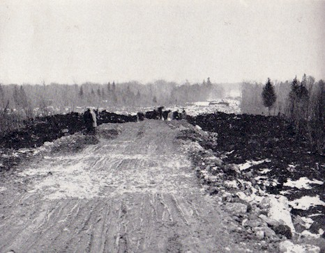 The Highway 38 Hartington-Verona Diversion under construction in 1936. The photo shows fill over a muskeg in the Frontenac Arch of the Canadian Shield.